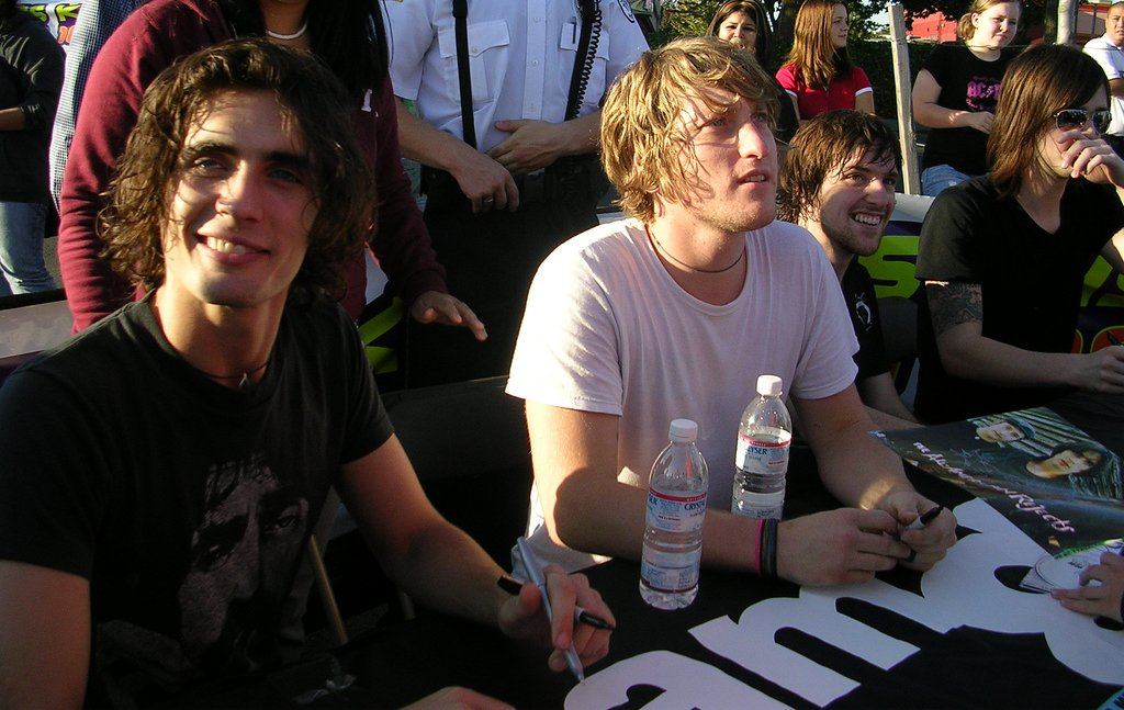 The All-American Rejects at a free show at the Everett Mall in Everett, Washington, United States